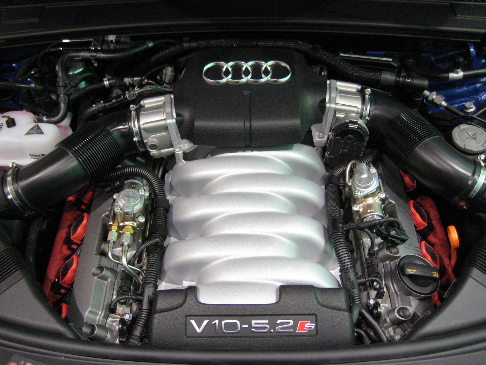 Audi S6 Engine in Audi Forum Tokyo